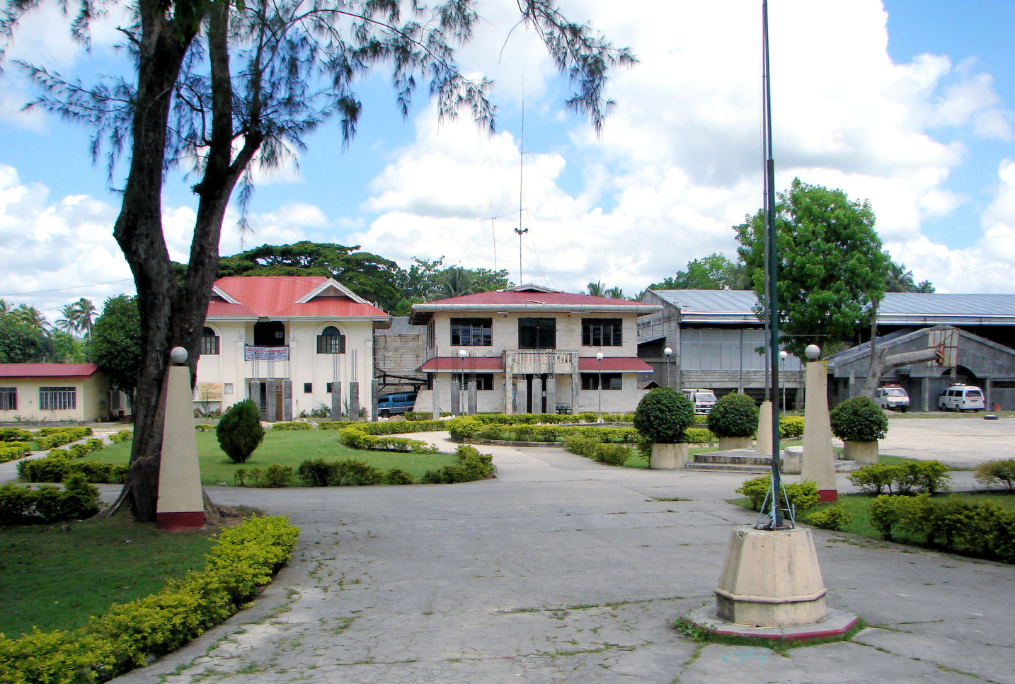 Batuan, Bohol, Philippines